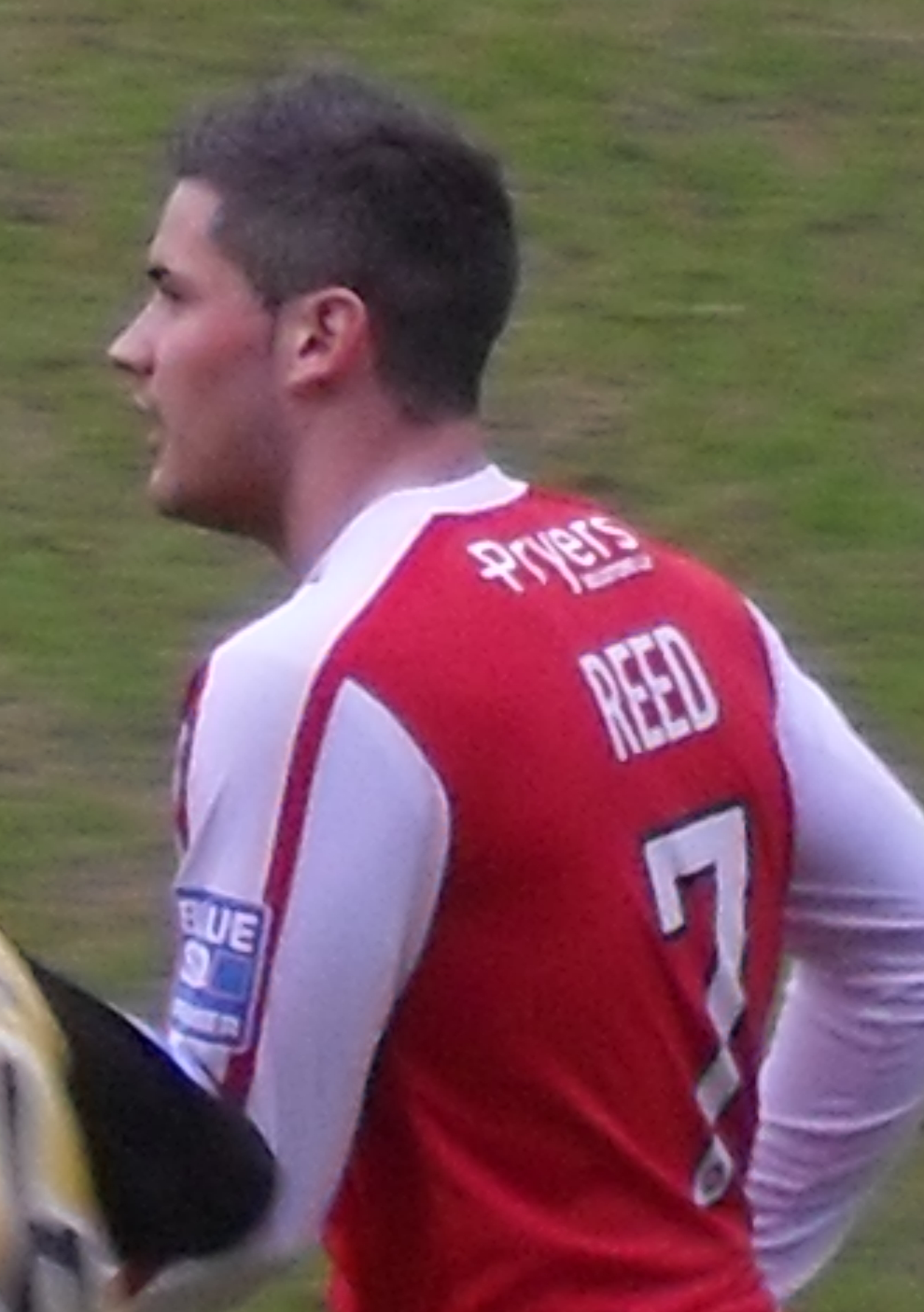 Jamie Reed